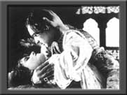 Sulochana (left) and Dinshaw Billimoria in Anarkali, 1928, a silent era Indian Cinema